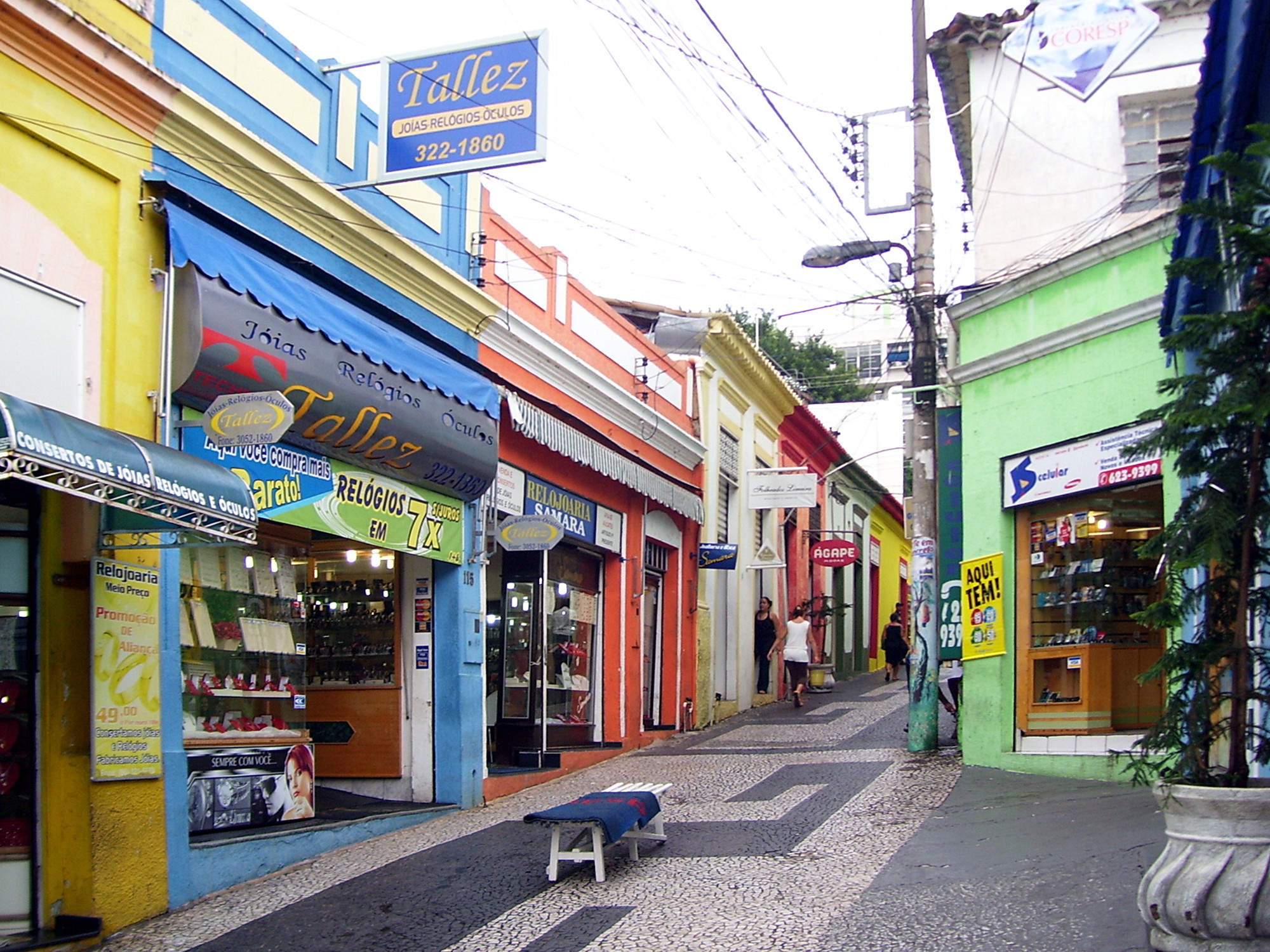 "Cândido Mariano" street, in the historic center of Cuiabá, Mato Grosso, Brazil.